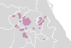 Map showing the current distribution of the Otomi language in Mexico.